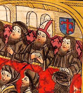 Gregory Tsamblak on the Council of Constance. Source - the archive of Charles University in Prague. Unknown author. Bulgarian writer and cleric, metropolitan of Kiev between 1413 and 1420. "Duma" newspaper, 09.06.2006: [1].